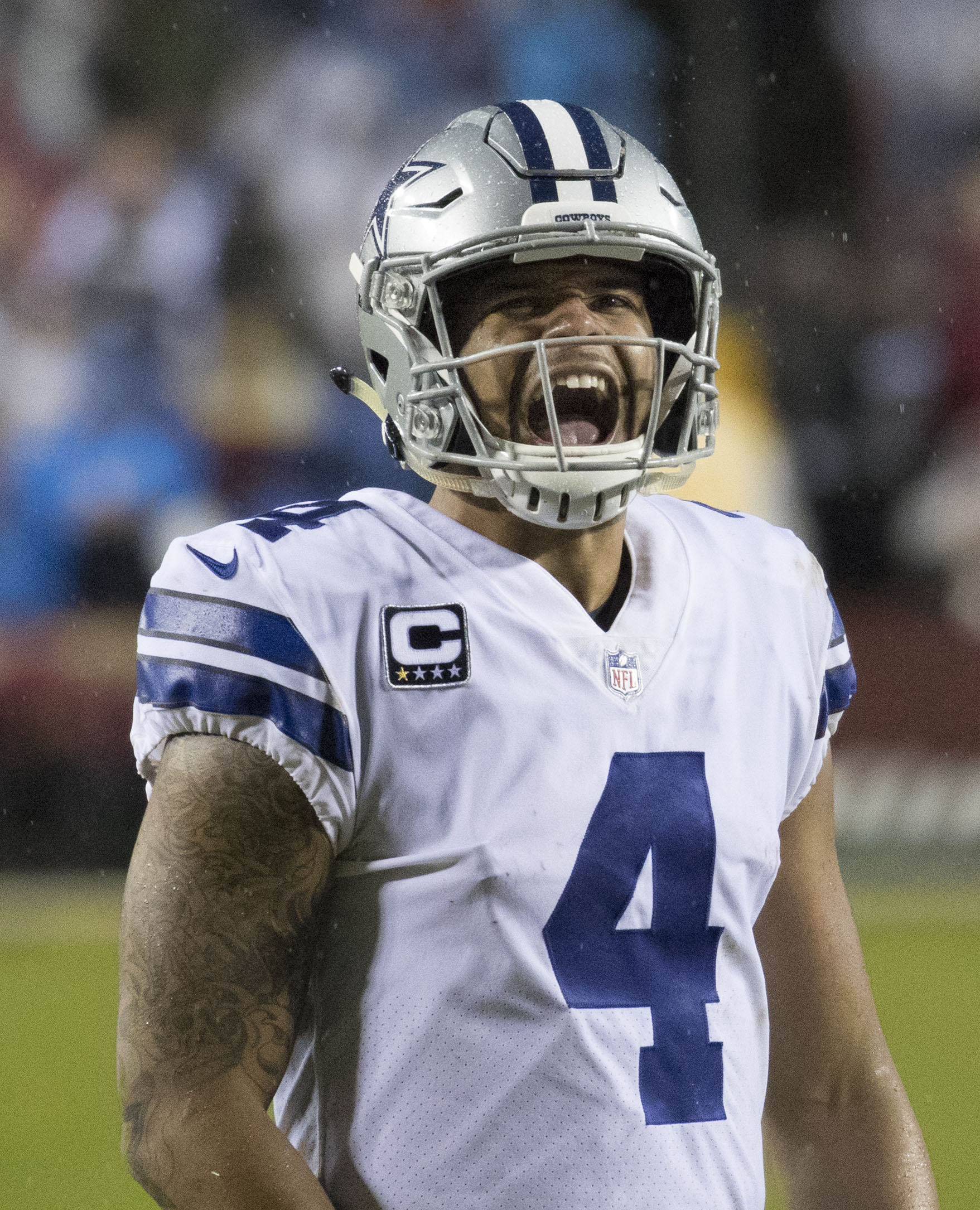 Cowboys at Redskins 10/29/17